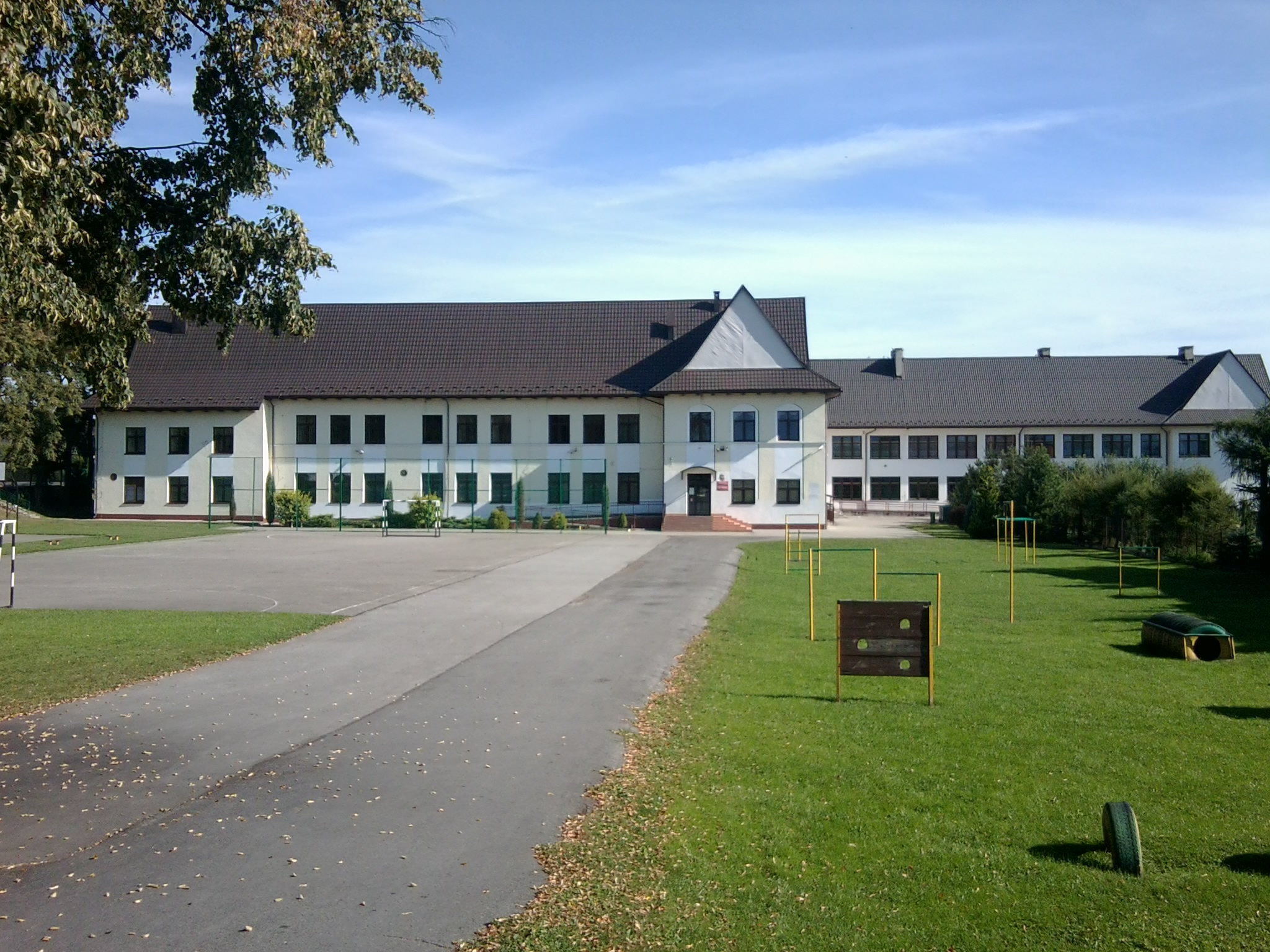 Primary school in Podegrodzie (Lesser Poland Voivodeship)